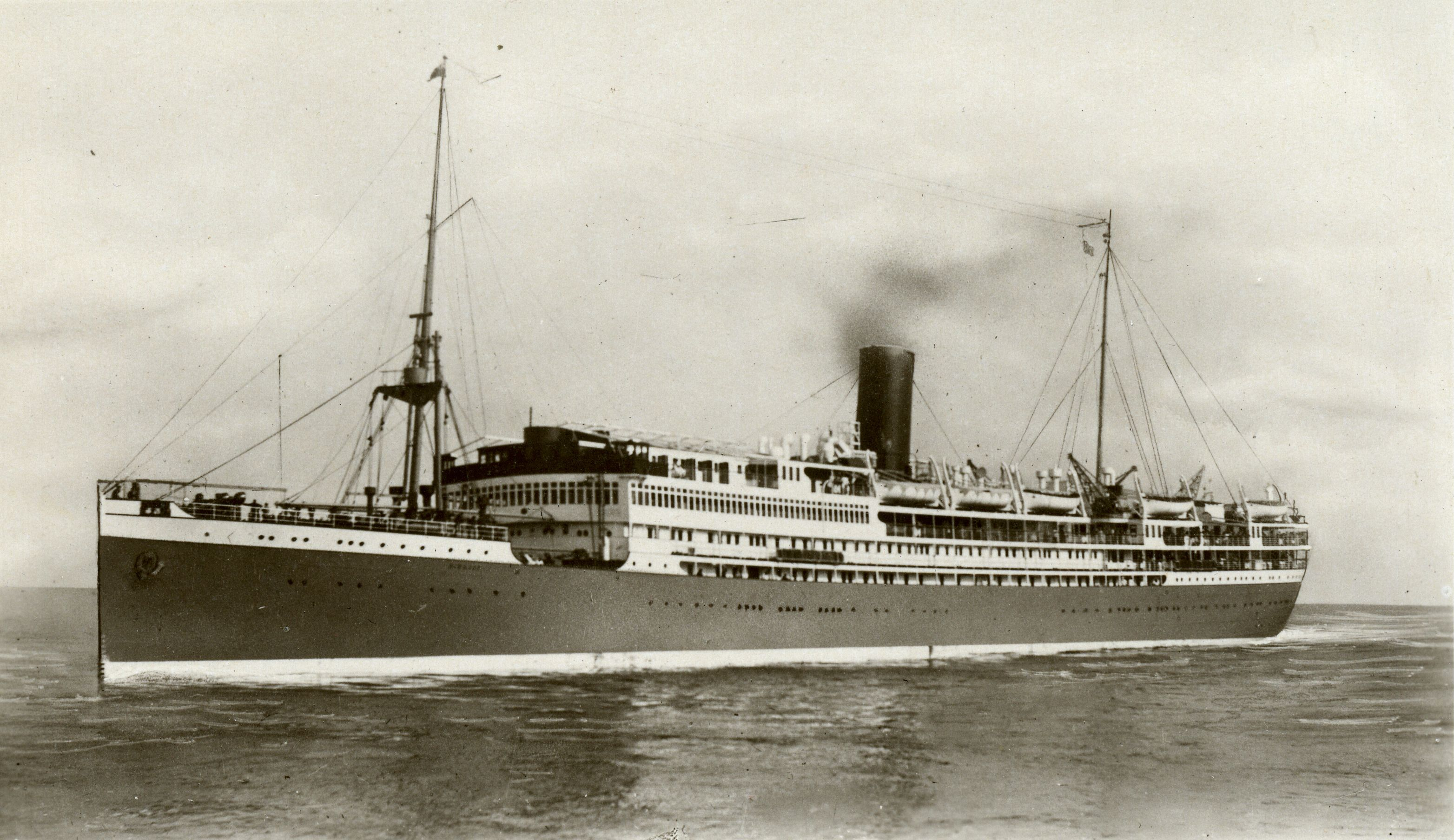 The Dutch ship MS Sibajak launched 1927. This is probably the 1927 launch portrait.